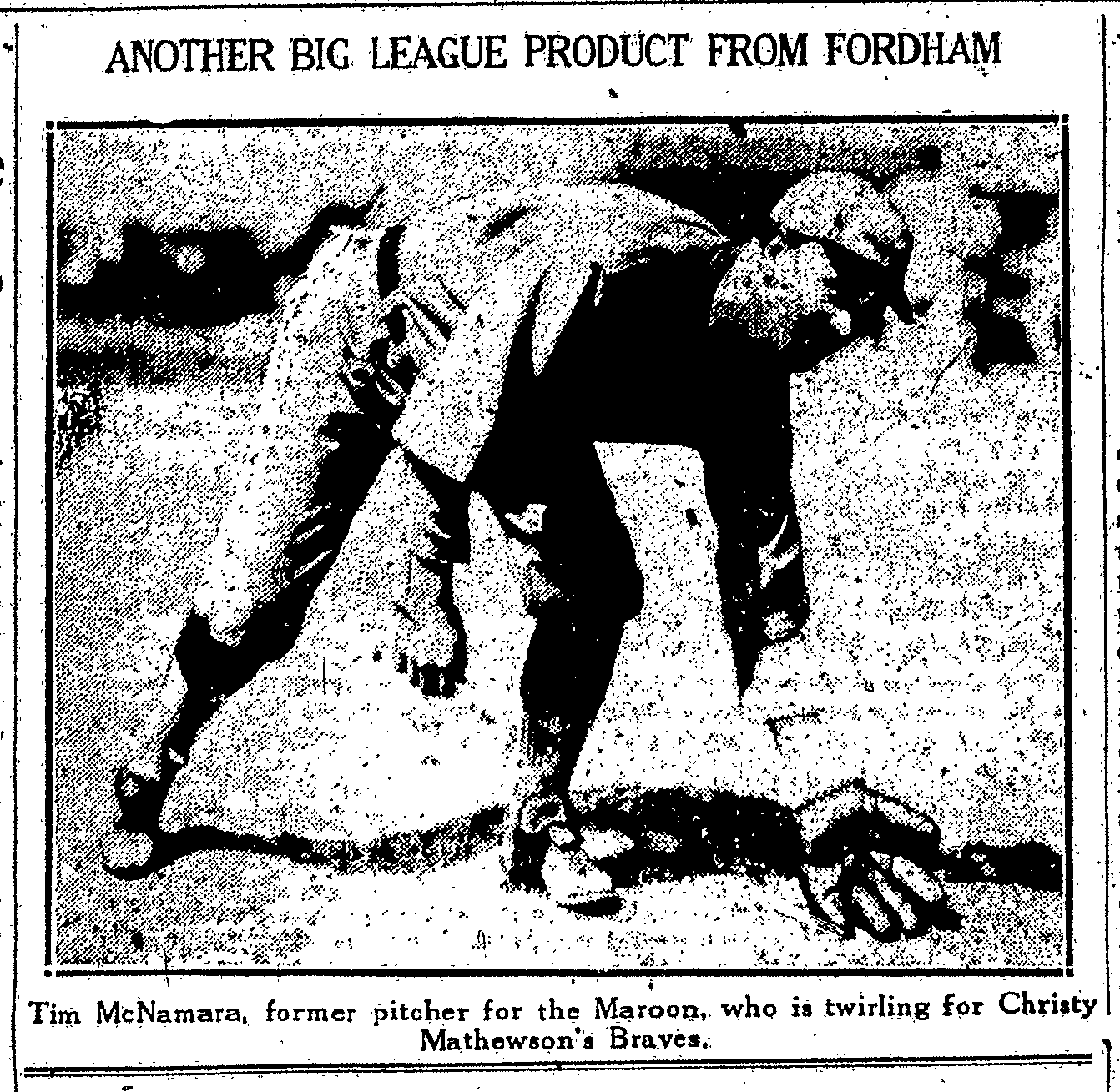 newspaper photo of the pitcher